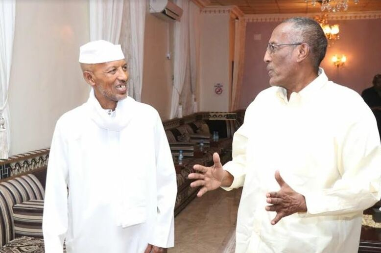 Hassan Isse Jama (left) with President Muse Bihi after a meeting